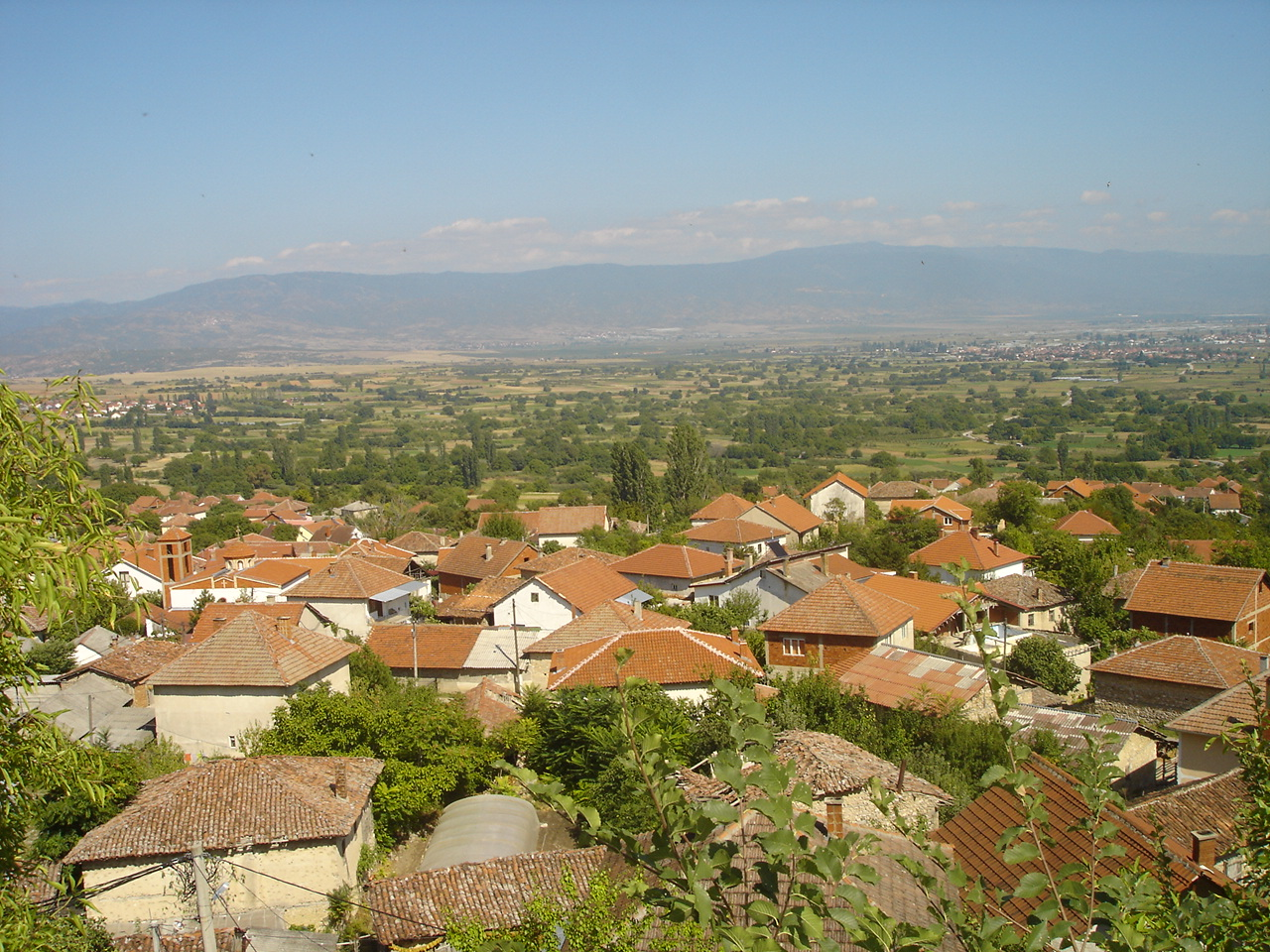 village of Veljusa near Strumica, Macedonia